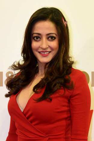 Raima Sen at HM store launch in Kolkata on Sep 22, 2017.